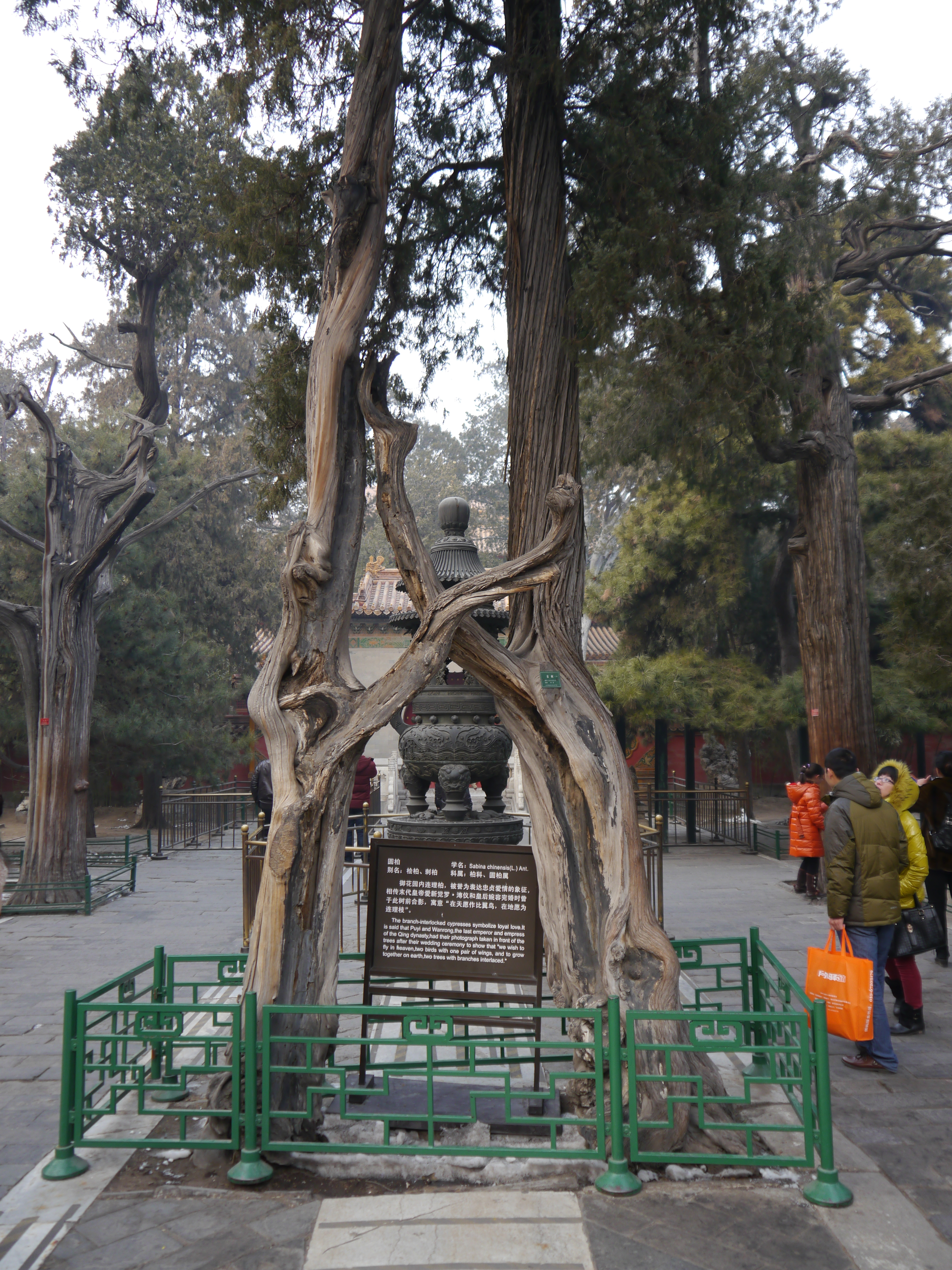 China, Beijing, Forbidden City.